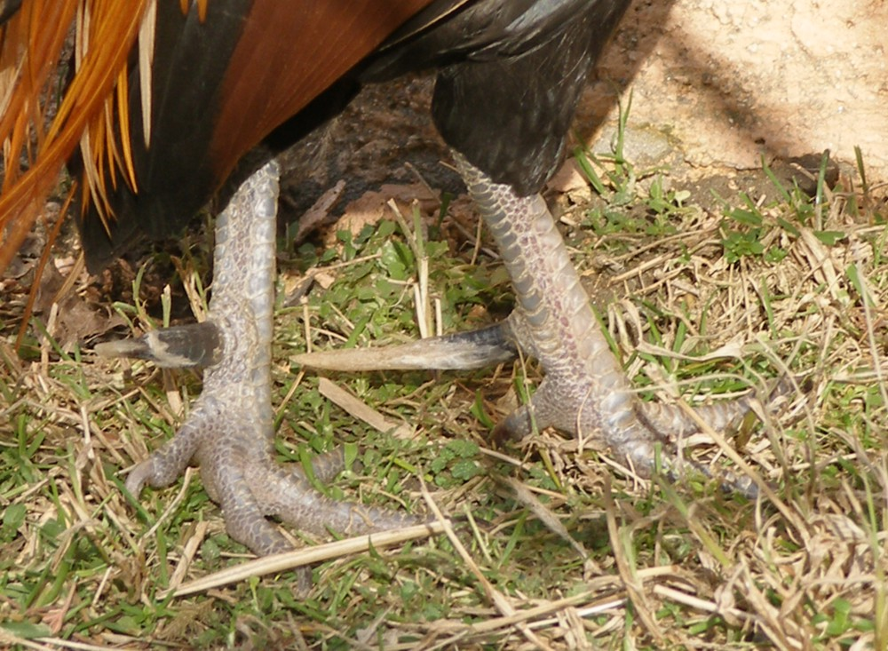 Sarkantyú